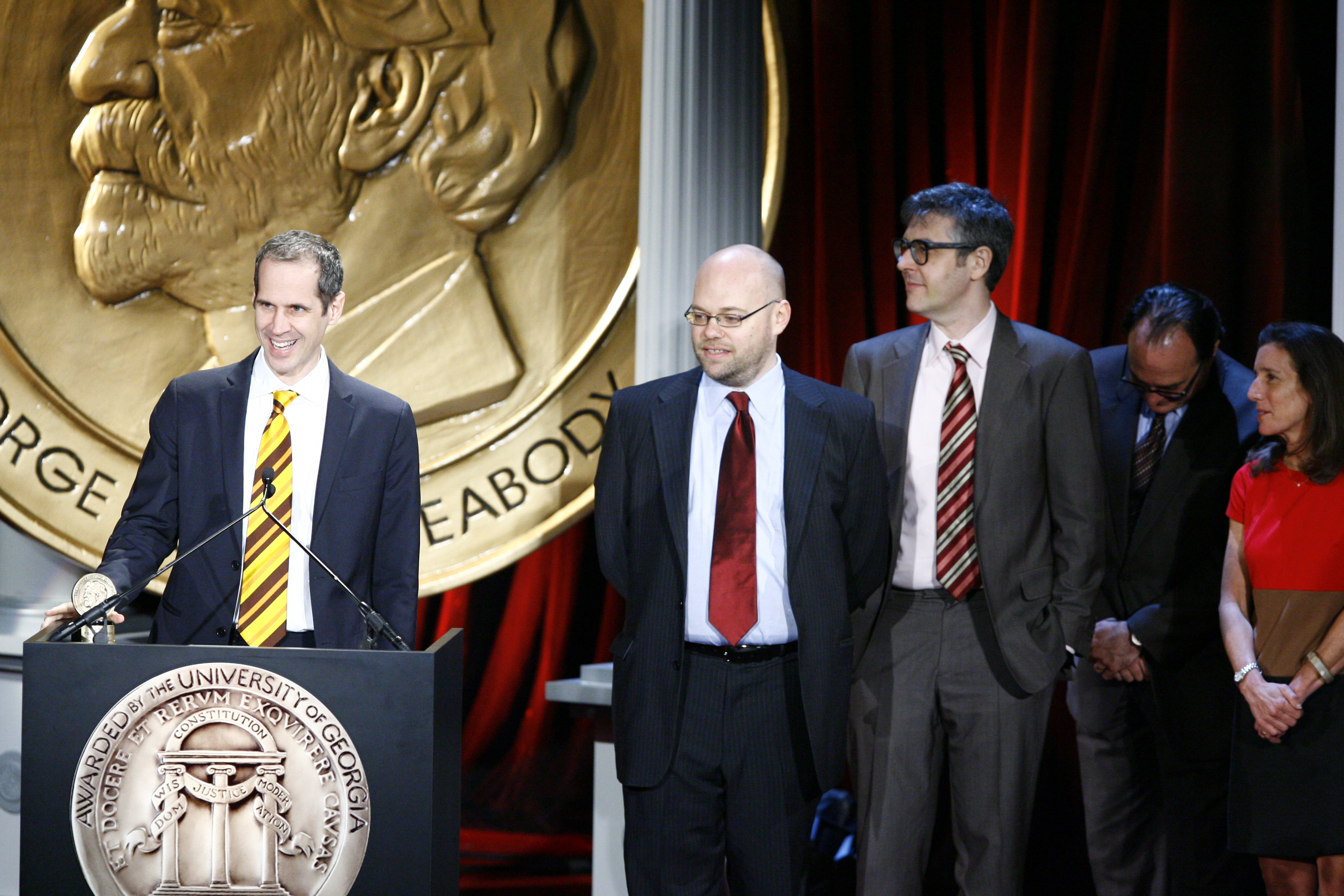 PHOTO CREDIT: ANDERS KRUSBERG / PEABODY AWARDS Alex Blumberg, Adam Davidson, Ira Glass and Ellen Weiss 69th Annual Peabody Awards Luncheon Waldorf=Astoria Hotel New York, NY USA May 17, 2010